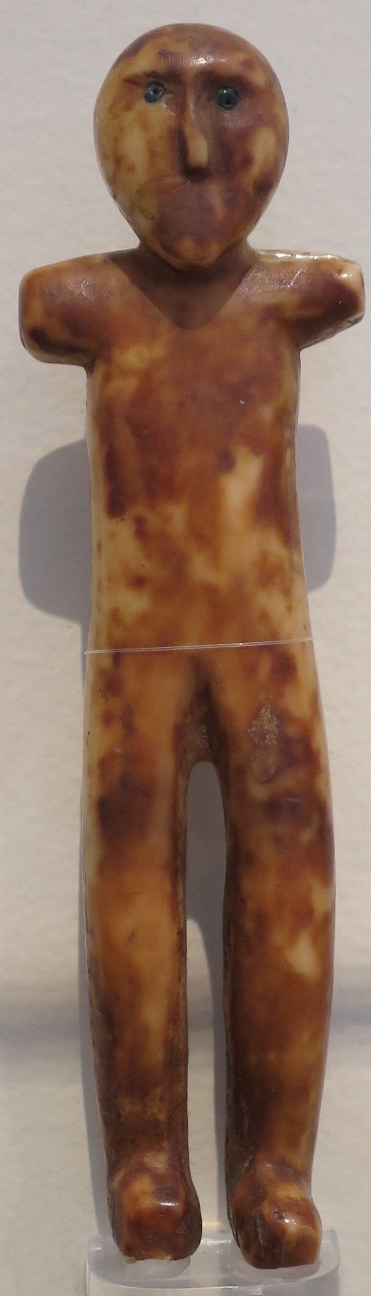 Eskimo human effigy form, Honolulu Museum of Art